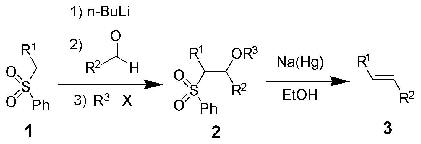 Description: Reaction scheme of the Juila olefination. Author, date of creation: selfmade by ~K, 29 April 2006. Source: - Copyright: Public domain. (PD) Comments: high-resolution b/w PNG; ChemDraw / The GIMP.